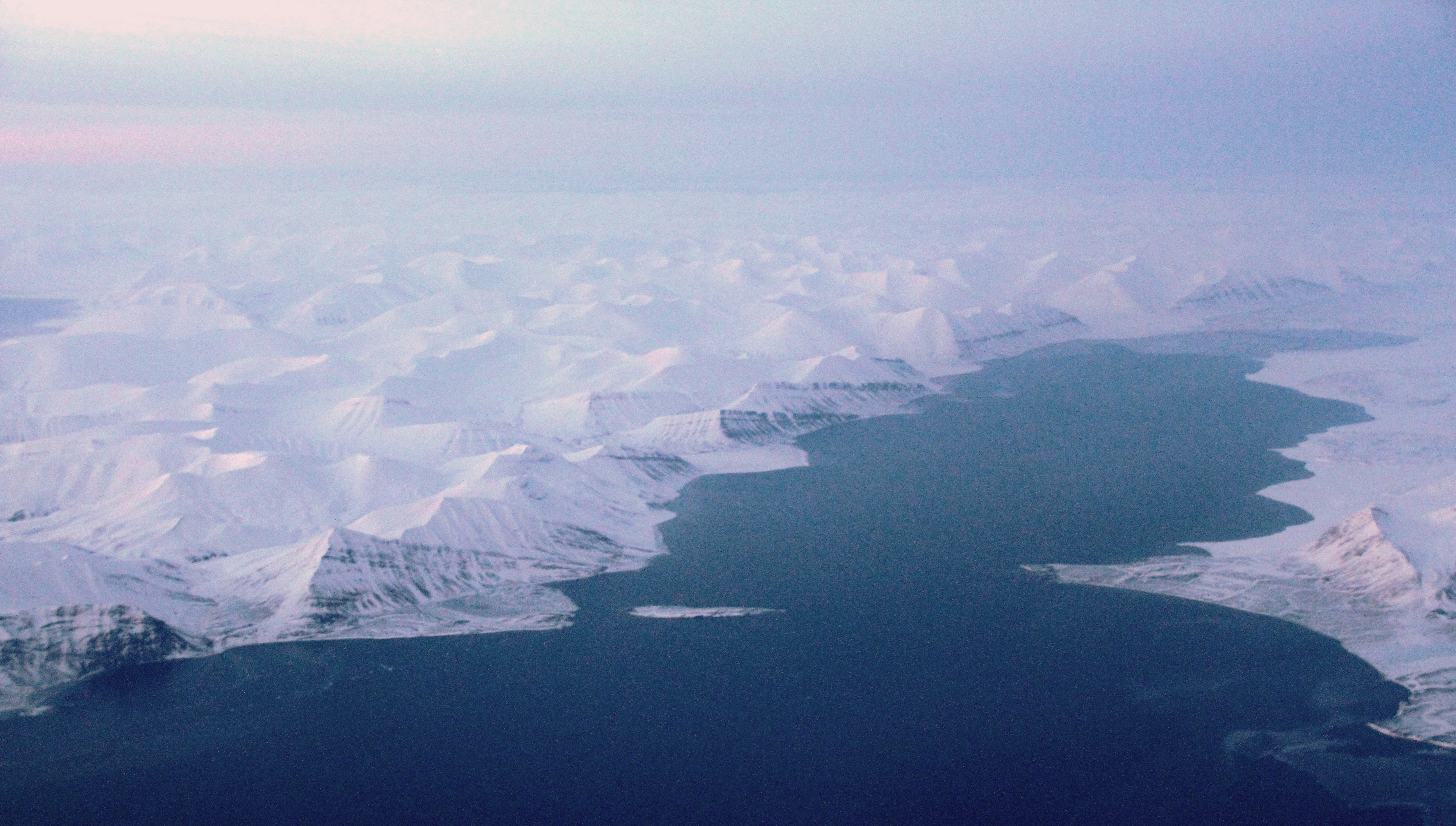 Nathorst Land is the south-central part of Spitsbergen, east of Bellsund. The photo is taken from the west towards east, in the middle of the night. Svalbard, Norway.